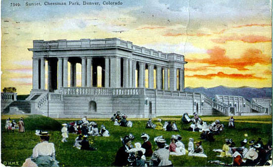 Period postcard of the Cheesman Memorial Pavilion in Cheesman Park, Denver, Colorado.